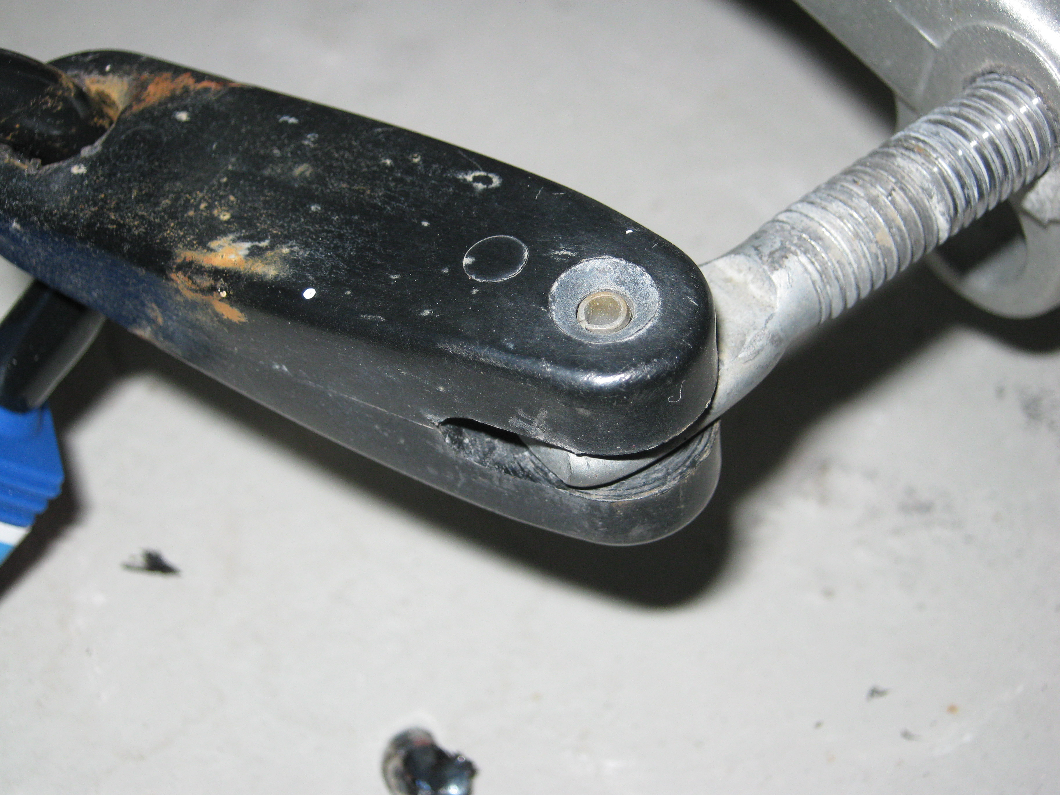 Klemmhülse Griff